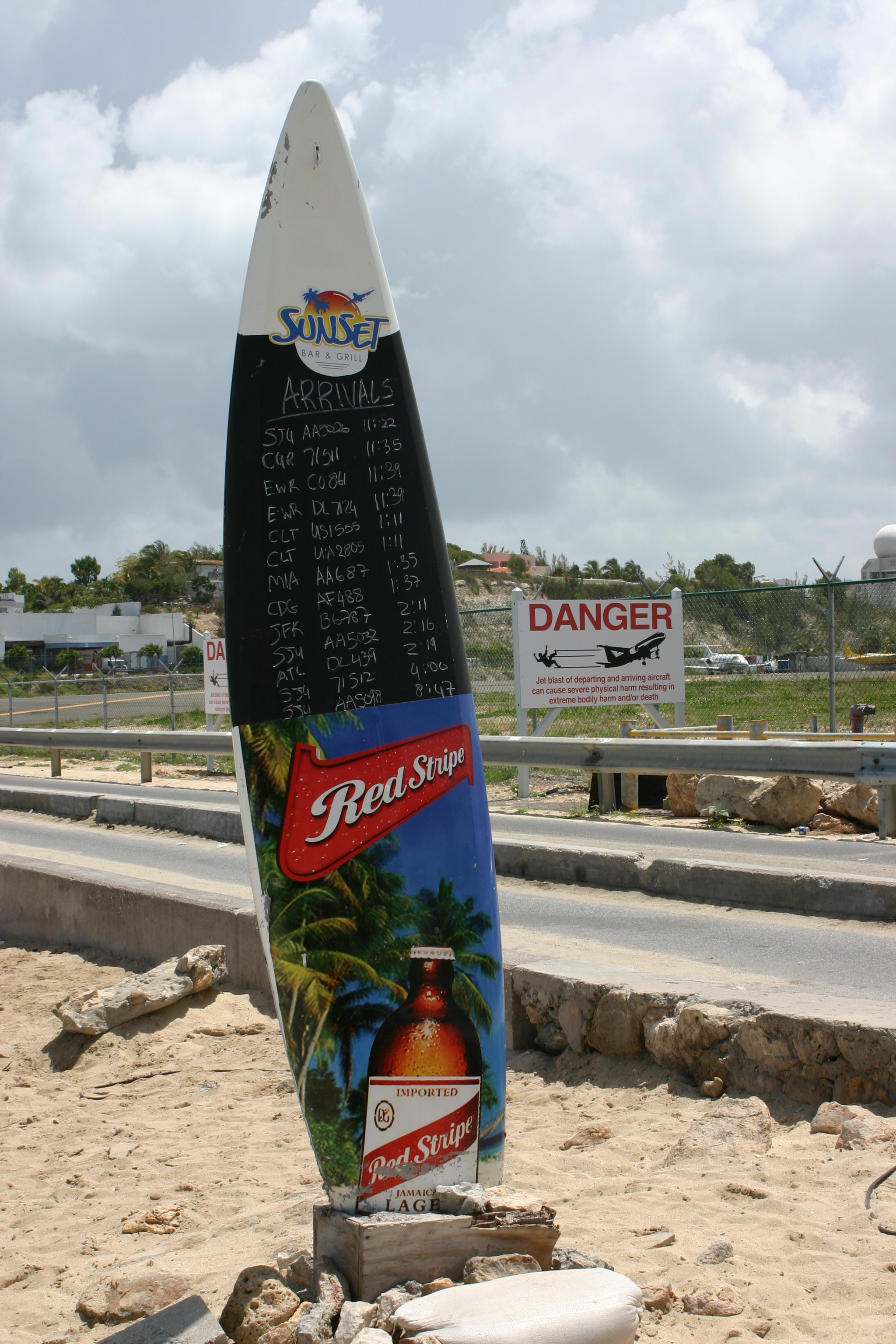 Surfboard at Maho Beach in the Sunset Bar showing the arriving flights of the day at Princess Juliana Airport Sint Maarten / St. Martin SXM